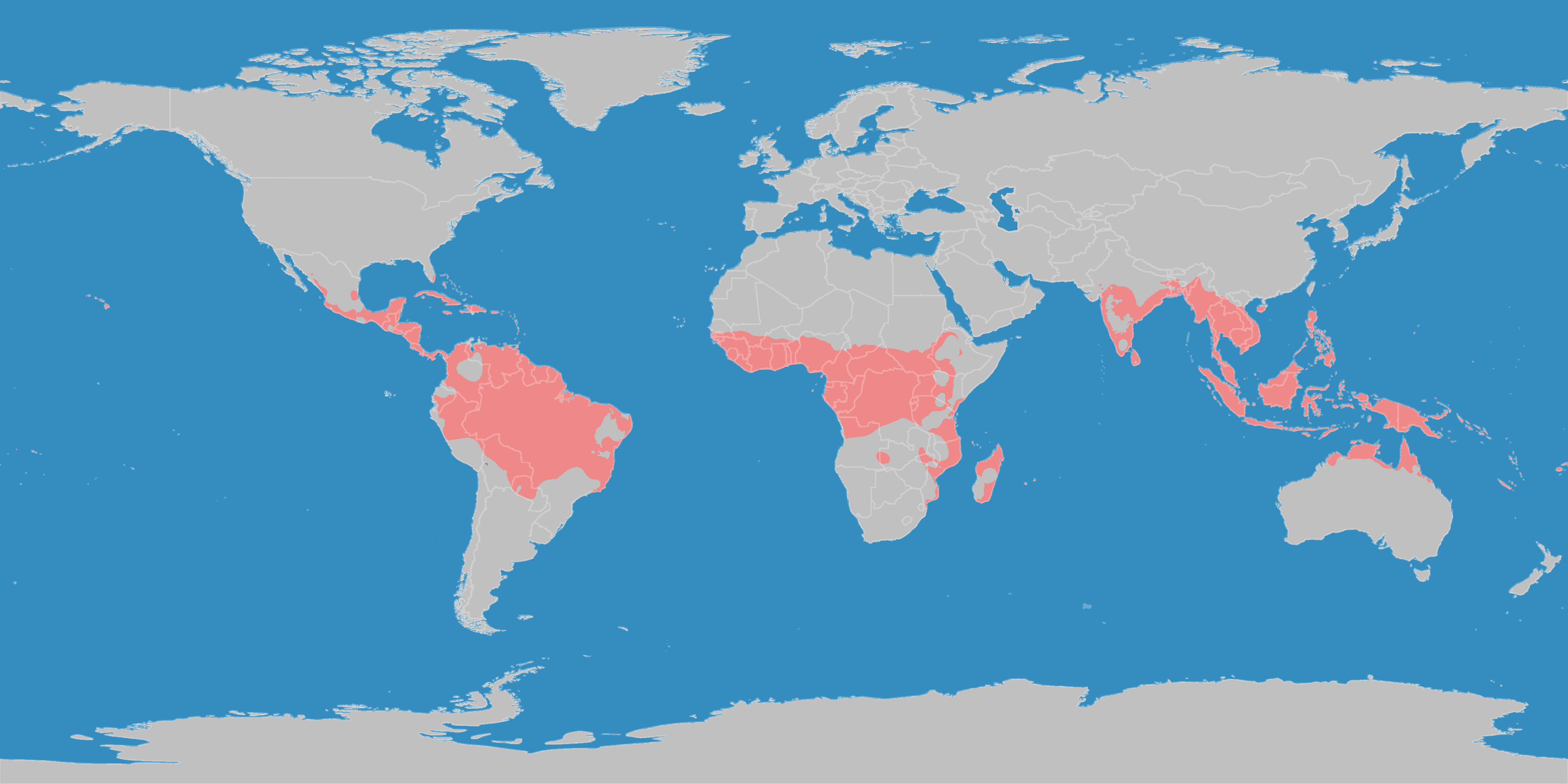 This map shows the Earth zones with tropical climate.